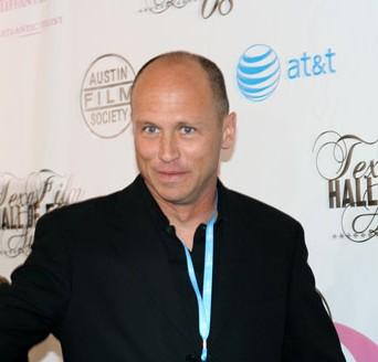 Cartoonist and director Mike Judge on the red carpet at the Texas Film Hall of Fame Awards